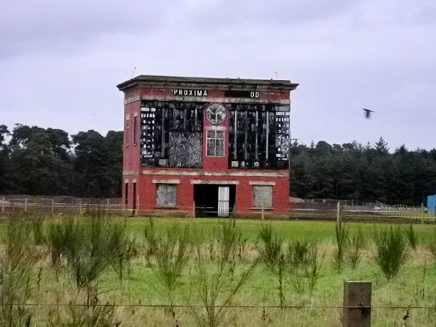 Lanark Race Course (Disused). Not being a race goer, I am unable to say what this building was used for.